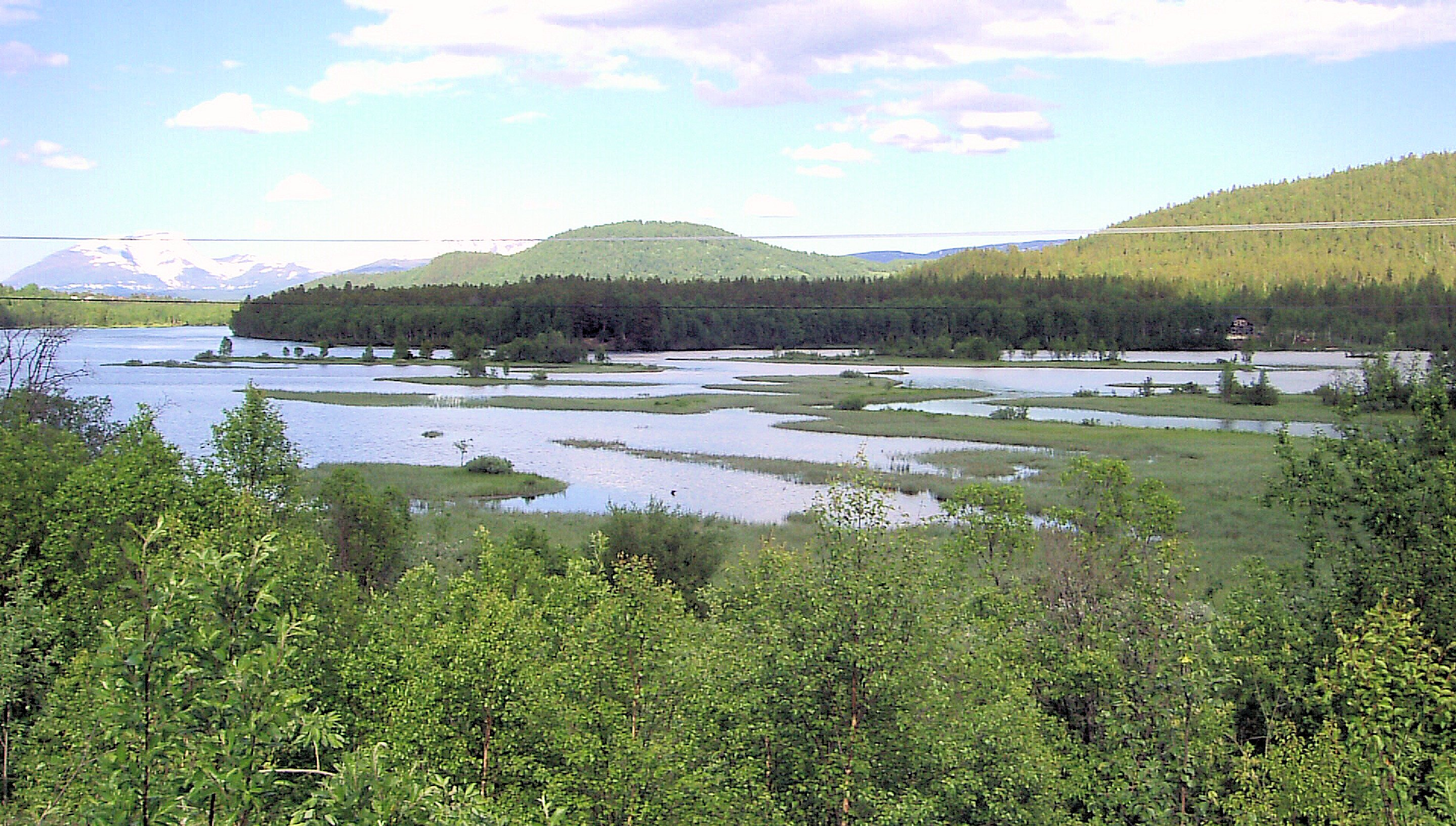 Barduelva, commune Bardu, Troms, Norway